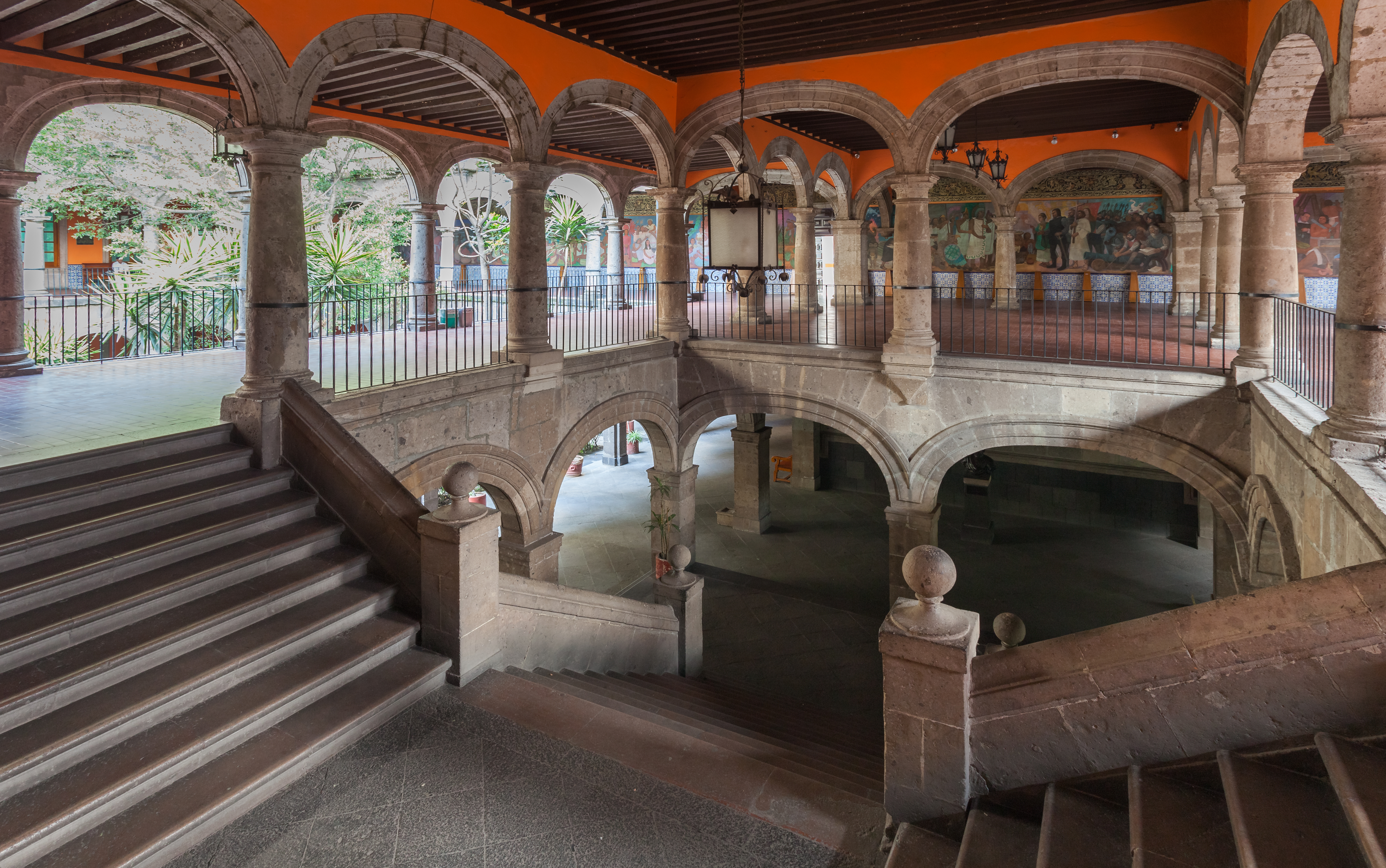 Jesus Hospital, Mexico City, Mexico